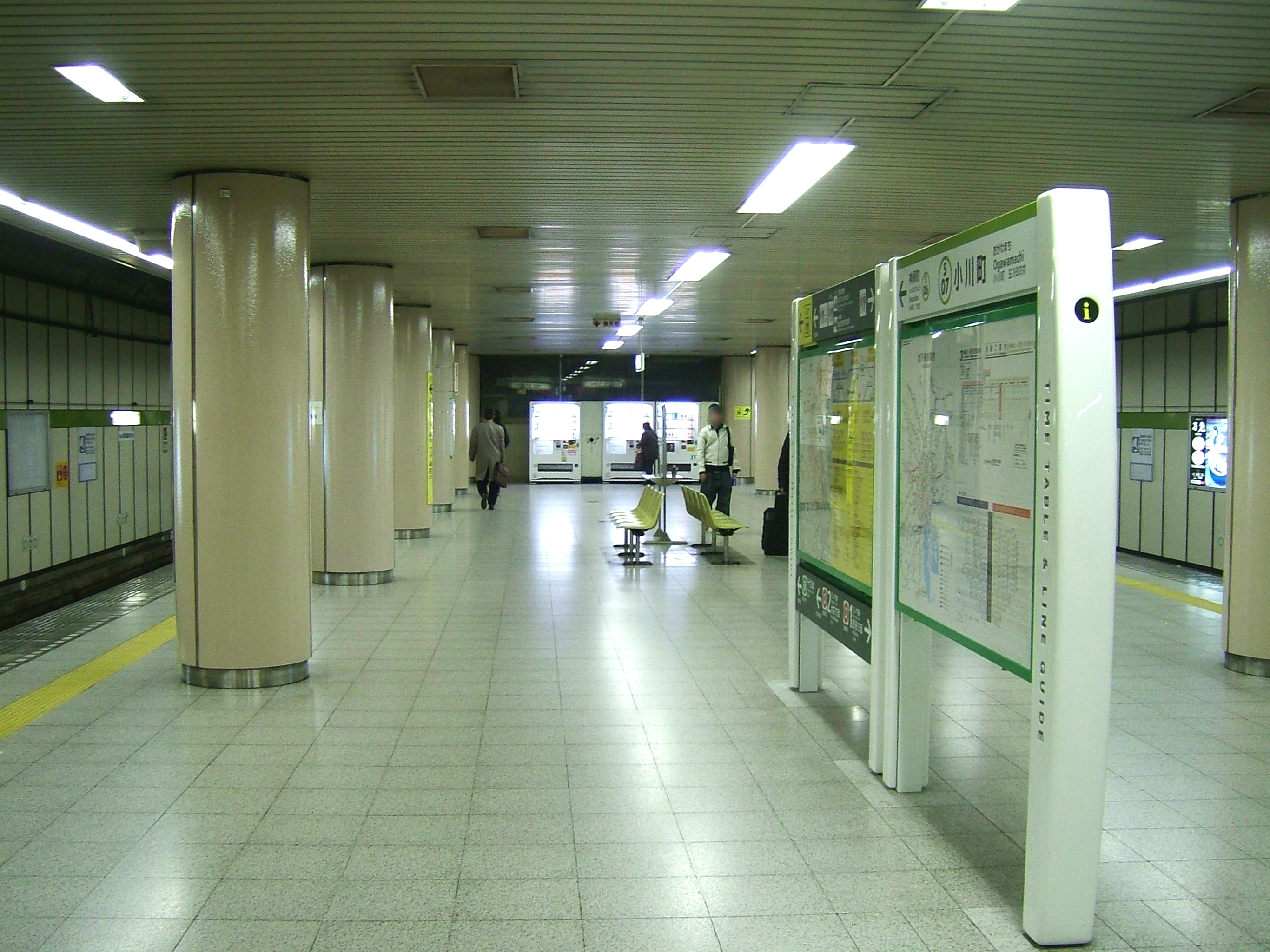 The platform at Ogawamachi Station on the Toei Shinjuku Line in Chiyoda city, Tokyo, Japan